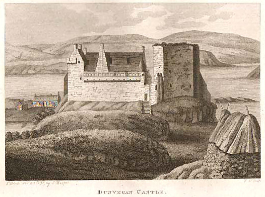 Engraving of Dunvegan Castle, ca. 18 x 12.5 cm